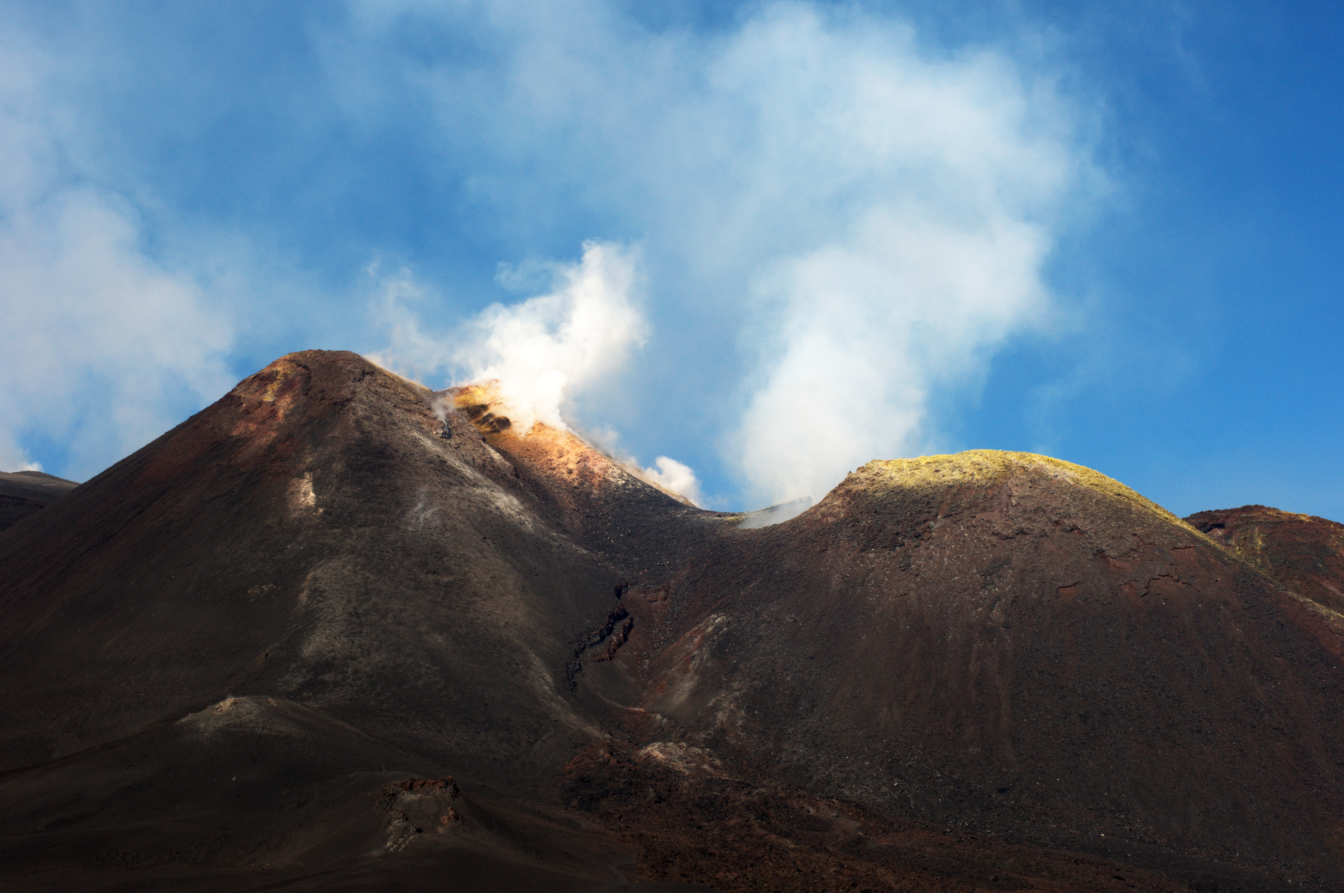 Top of Mount Etna, seen from South